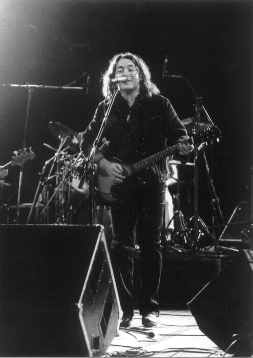 Rory Gallagher in concert